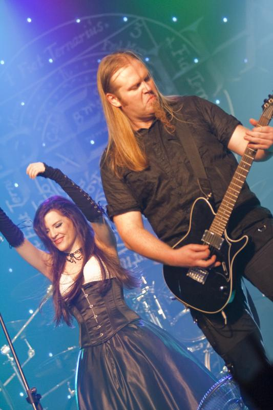 Sirenia - Gothic metal band